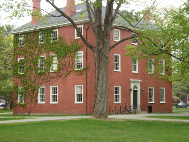 Massachusetts Hall: the first building at Bowdoin. Students lived on the first floor, professors on the third and met in the middle for classes. Currently houses the English department.